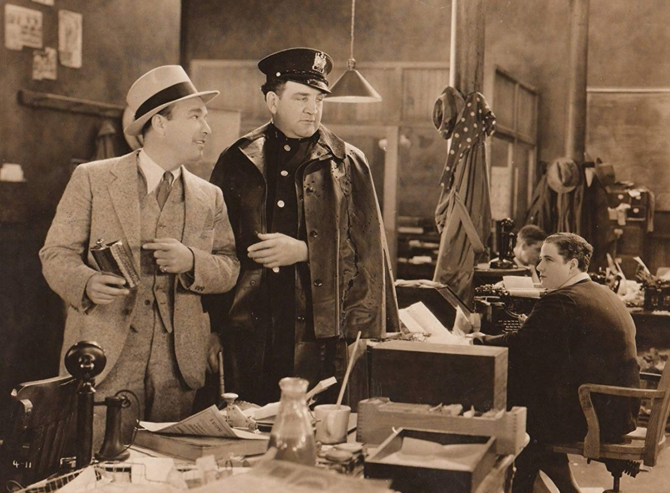 Robert Armstrong (left) & Tom Kennedy (policeman) in Big News - publicity still